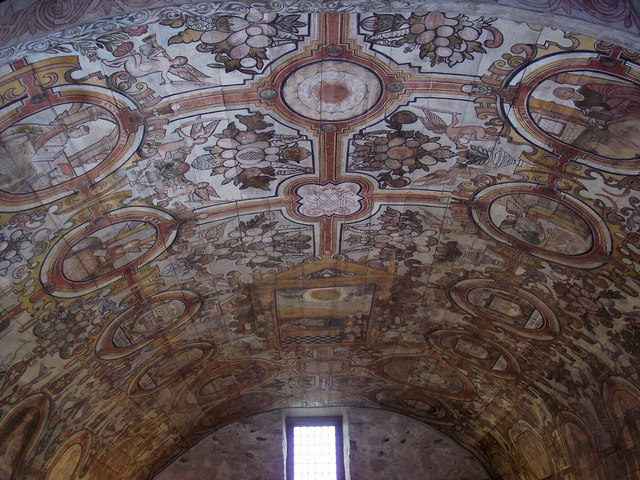 St Mary's Chapel, Grandtully - Painted Ceiling When the chapel was enlarged in 1636 a gallery was placed over the eastern end of the building. The ceiling was decorated with the arms of families connected with the Stewarts of Grandtully and with depictions of the apostles.